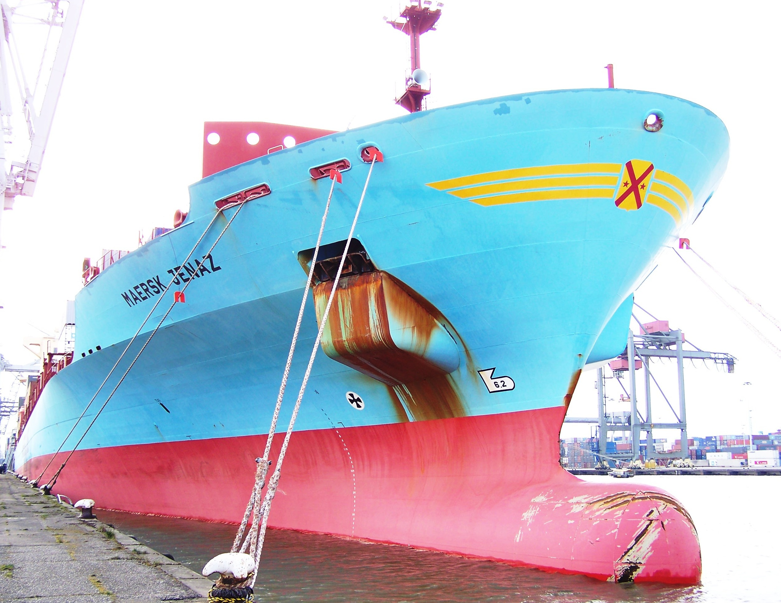 Container vessel M/V Maersk Jenaz alongside in Rotterdam.